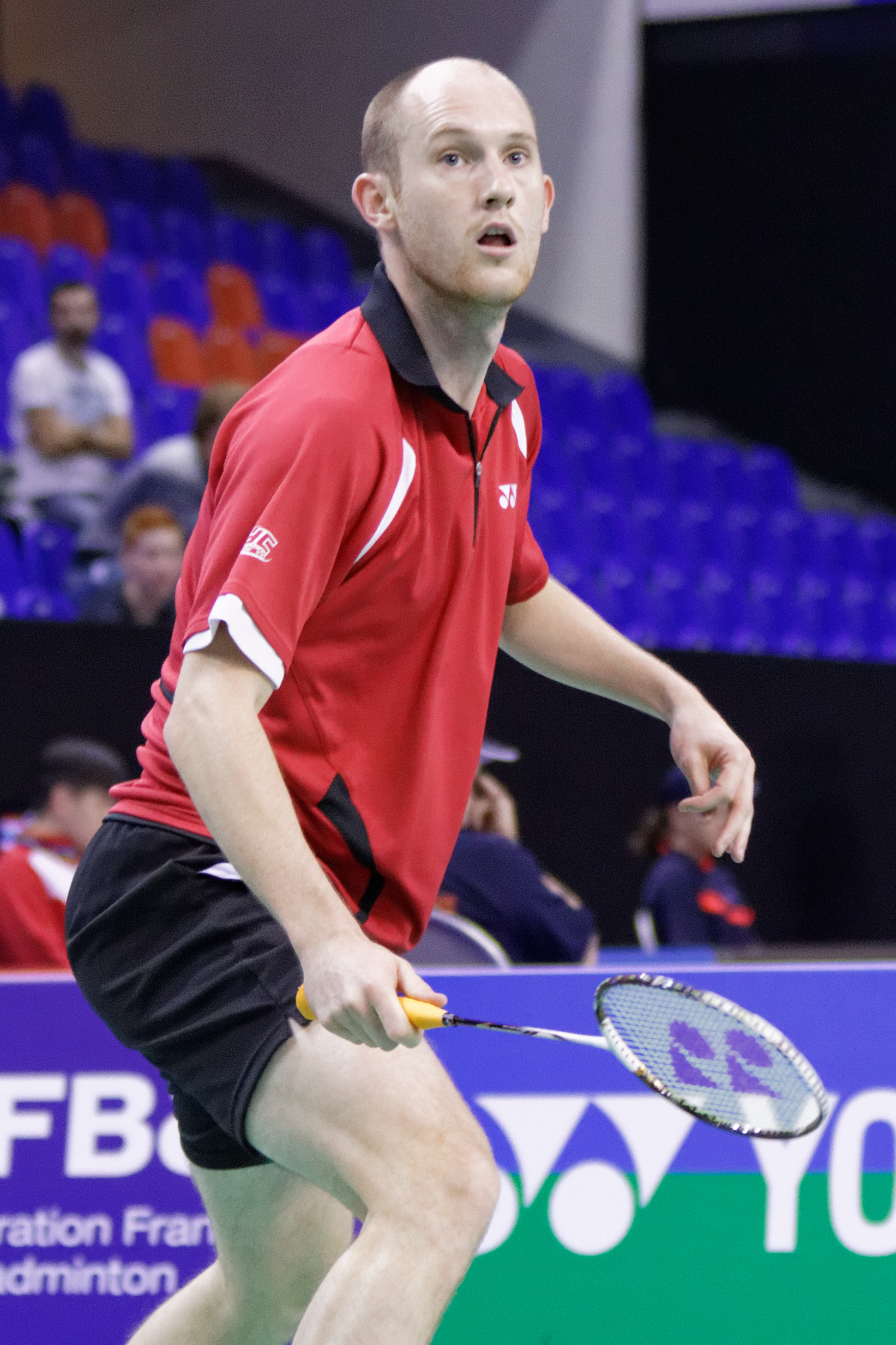 2013 French open. Men's doubles eightfinal. Kim Ki-jung and Kim Sa-rang vs Chris Adcock and Andrew Ellis.